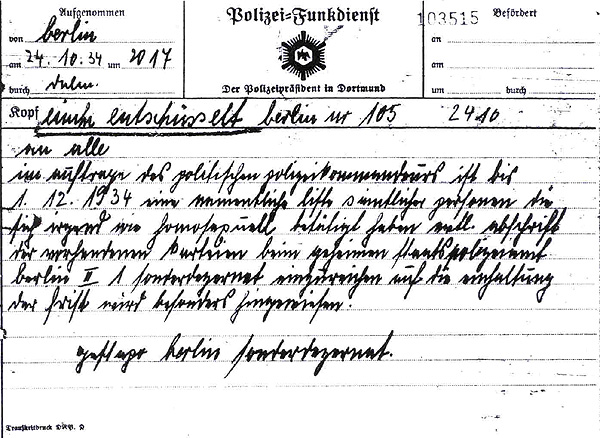 Gestapo Radio Telegram for a list of suspected homosexuals for the Chief of Police in Dortmund, from the United States Holocaust Memorial Museum